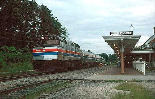 The northbound Colonial at Williamsburg station in July 1978